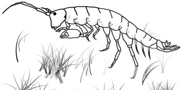 A drawing of Chelorchestia colombiensis. Scale: 2.0 mm